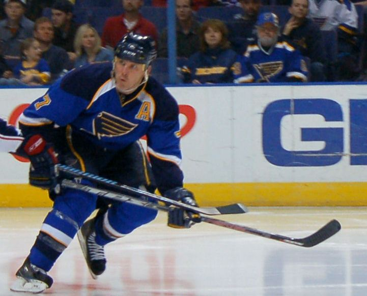 Keith Tkachuk about to break away for his 499th NHL goal